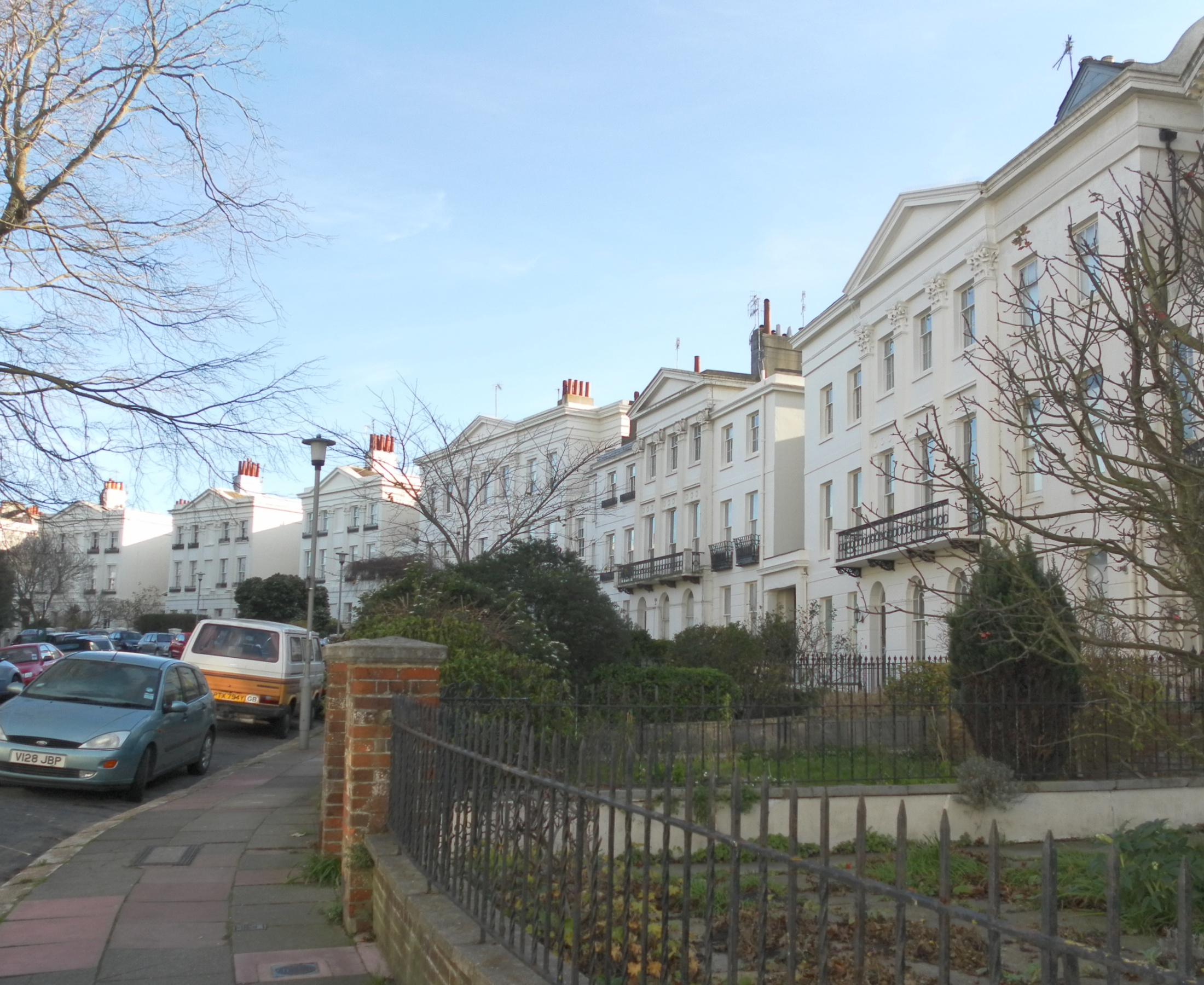 General view of the Grade II*-listed central section of Montpelier Crescent, Montpelier, City of Brighton and Hove, England.